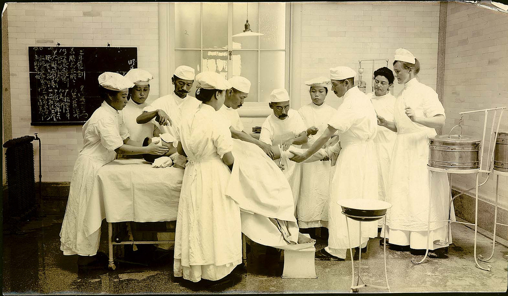 Anita Newcomb McGee, assistant surgeon, was director of the Daughters of the American Revolution Hospital Corps (which became the Red Cross) and organized the Army Nurse Corps in 1901. This photo is from her service in Japan during the Russo-Japanese War. ca. 1904-1908. Selected by Kathleen.